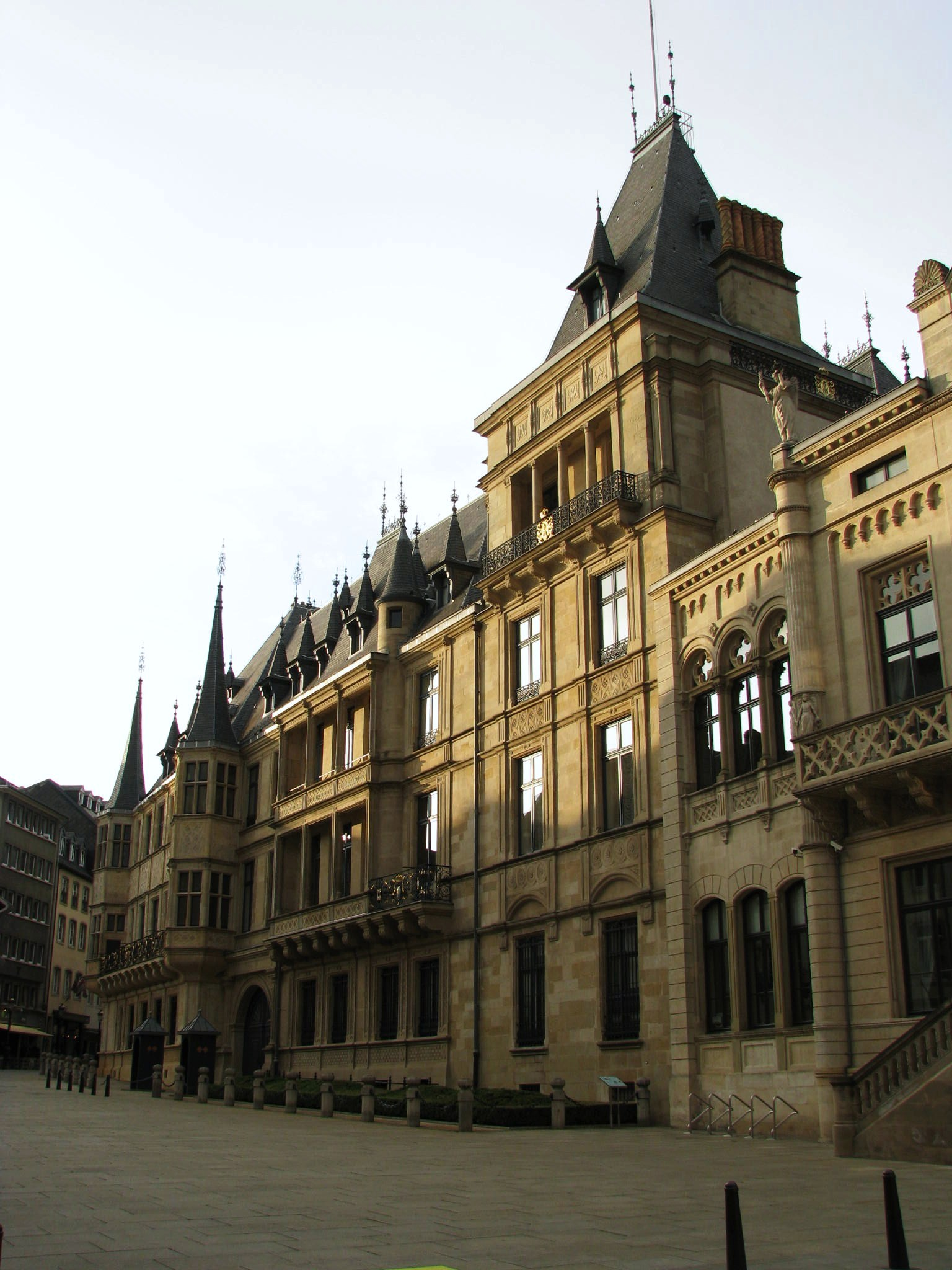 Grand Ducal Palace in Luxembourg City, Luxembourg.